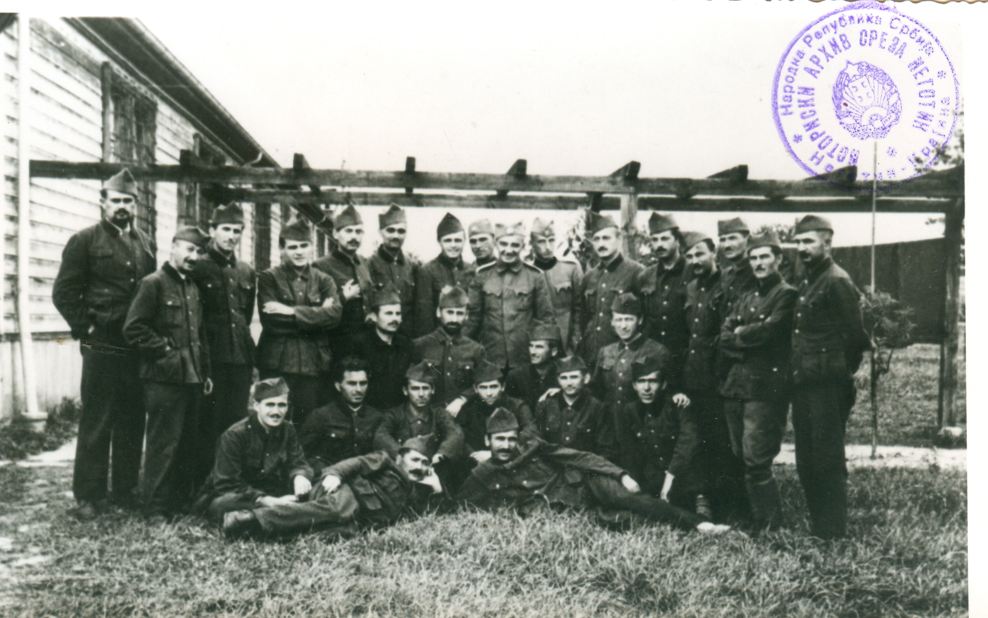 Serbian prisoners in war in German internment camp in Oflag Srpski (latinica): Ratni zarobljenici iz Srbije u logoru u Oflagu